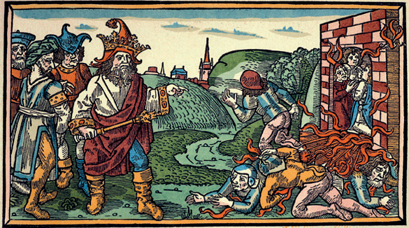 illustration (woodcut) showing the three men in the fiery furnace, made for the Lübecker Bibel (1494)